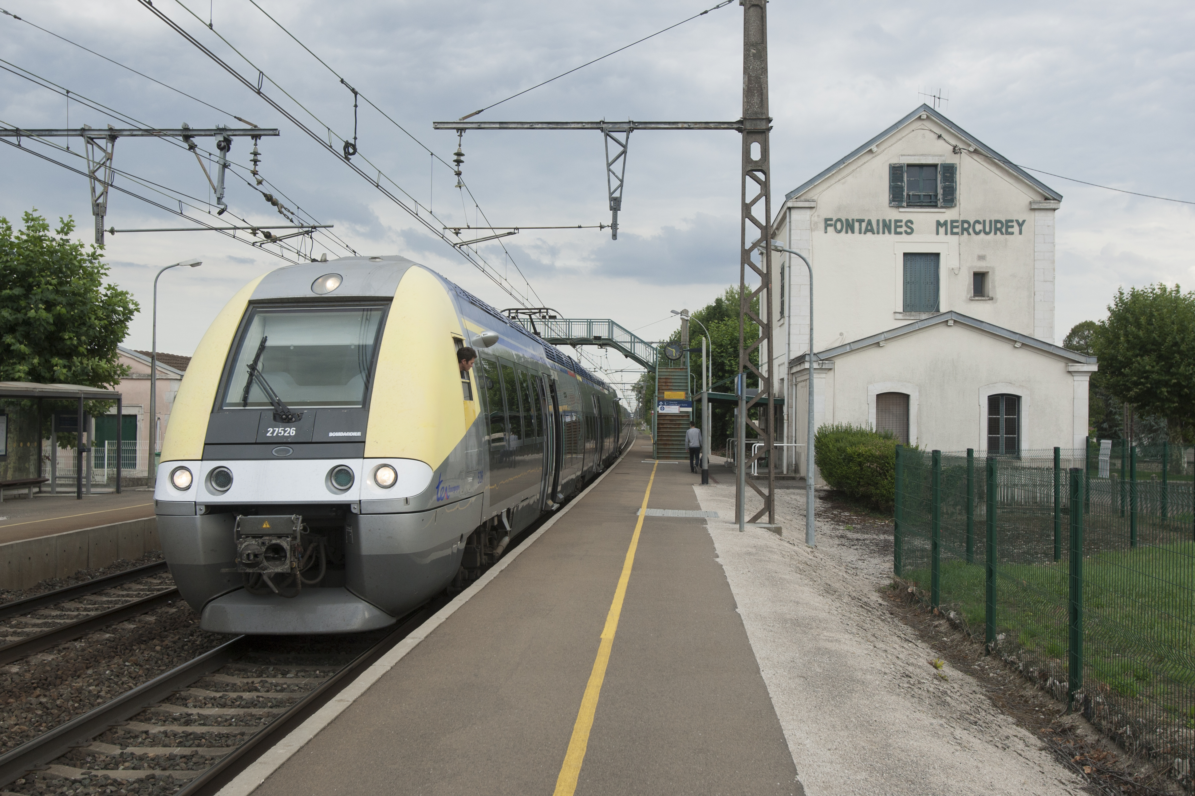 Fontaines-Mercurey Train Station